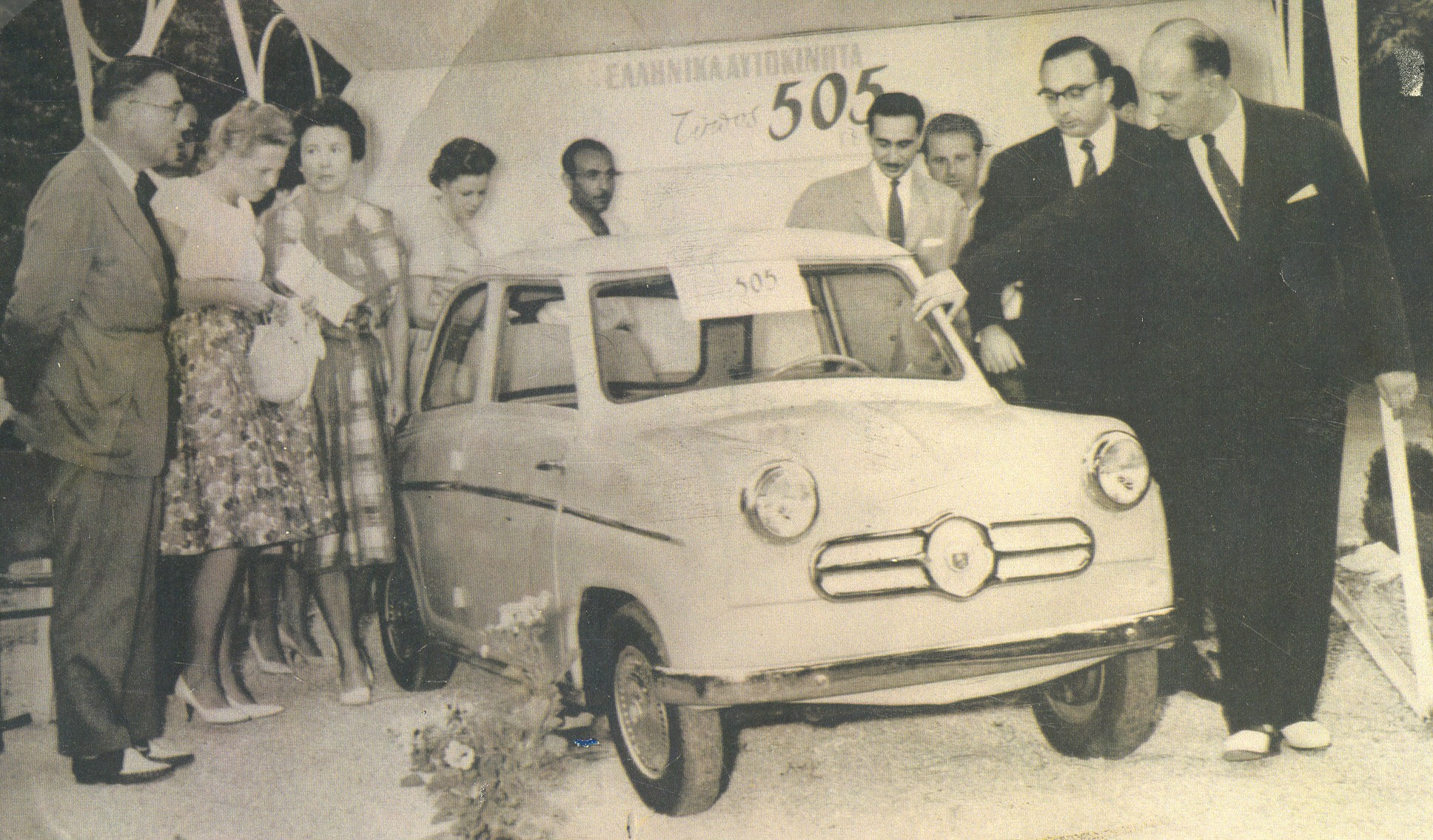 Dimitriadis 505 model (1958). This picture was provided to me by Mr. G. Dimitriadis himself, as I have authored two books on Greek vehicle industry. We have agreed that the image can freely be reproduced.